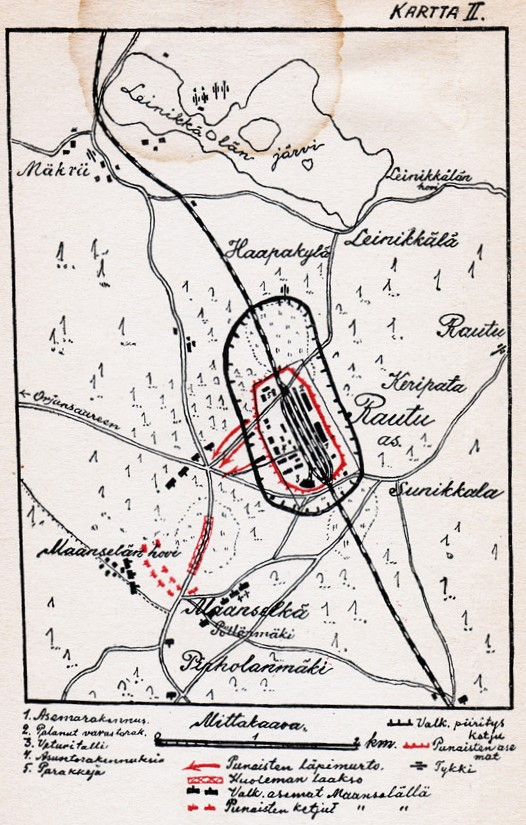 Map of the 1918 Finnish Civil War Battle of Rautu.